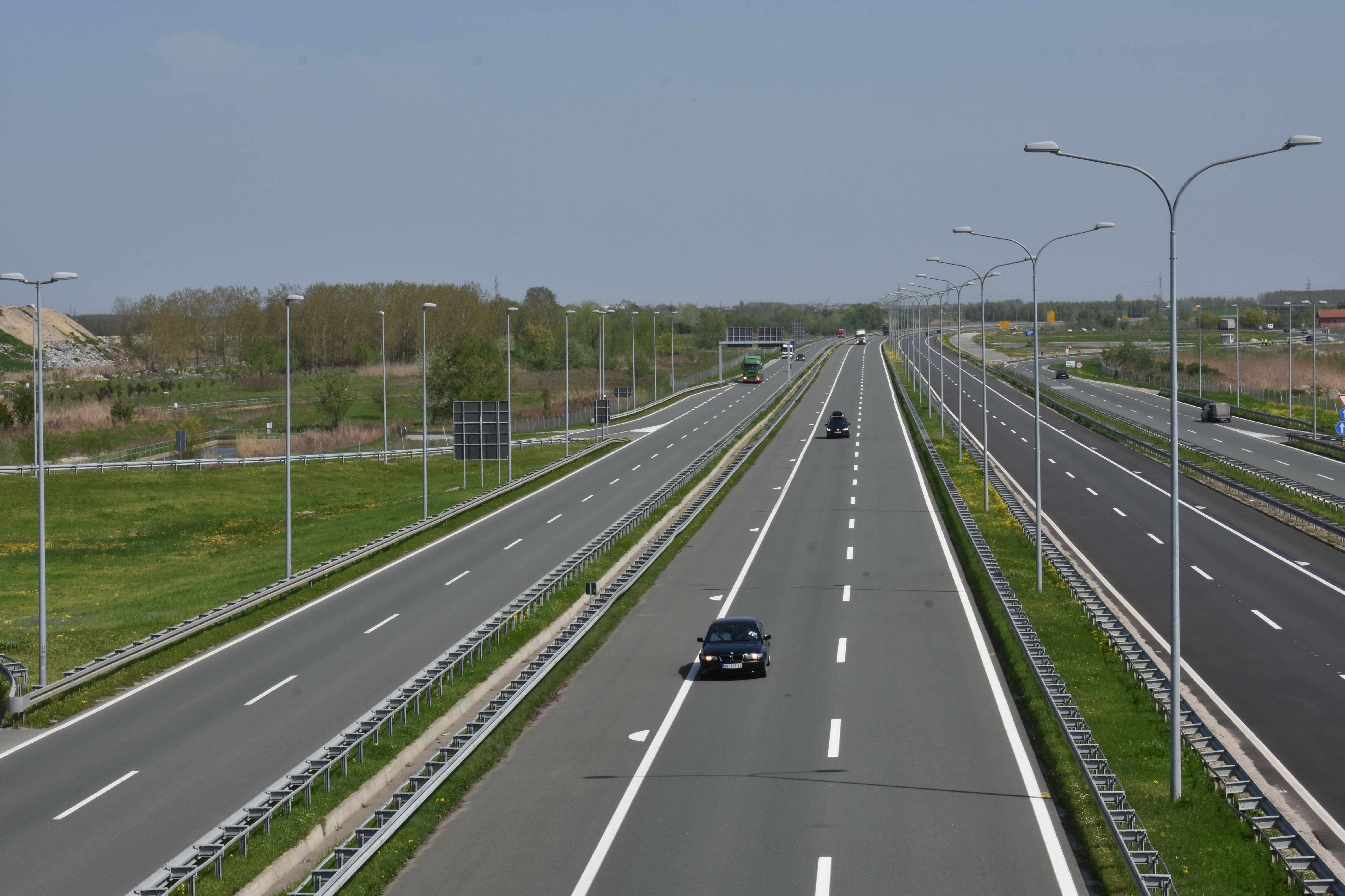 A1 motorway and access road near Novi Sad, Serbia (Novi Sad Center junction)